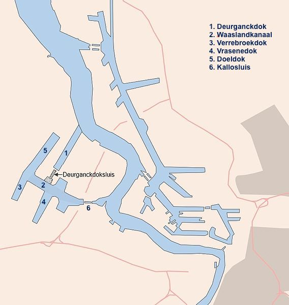 Port of Antwerp: Port of Waasland